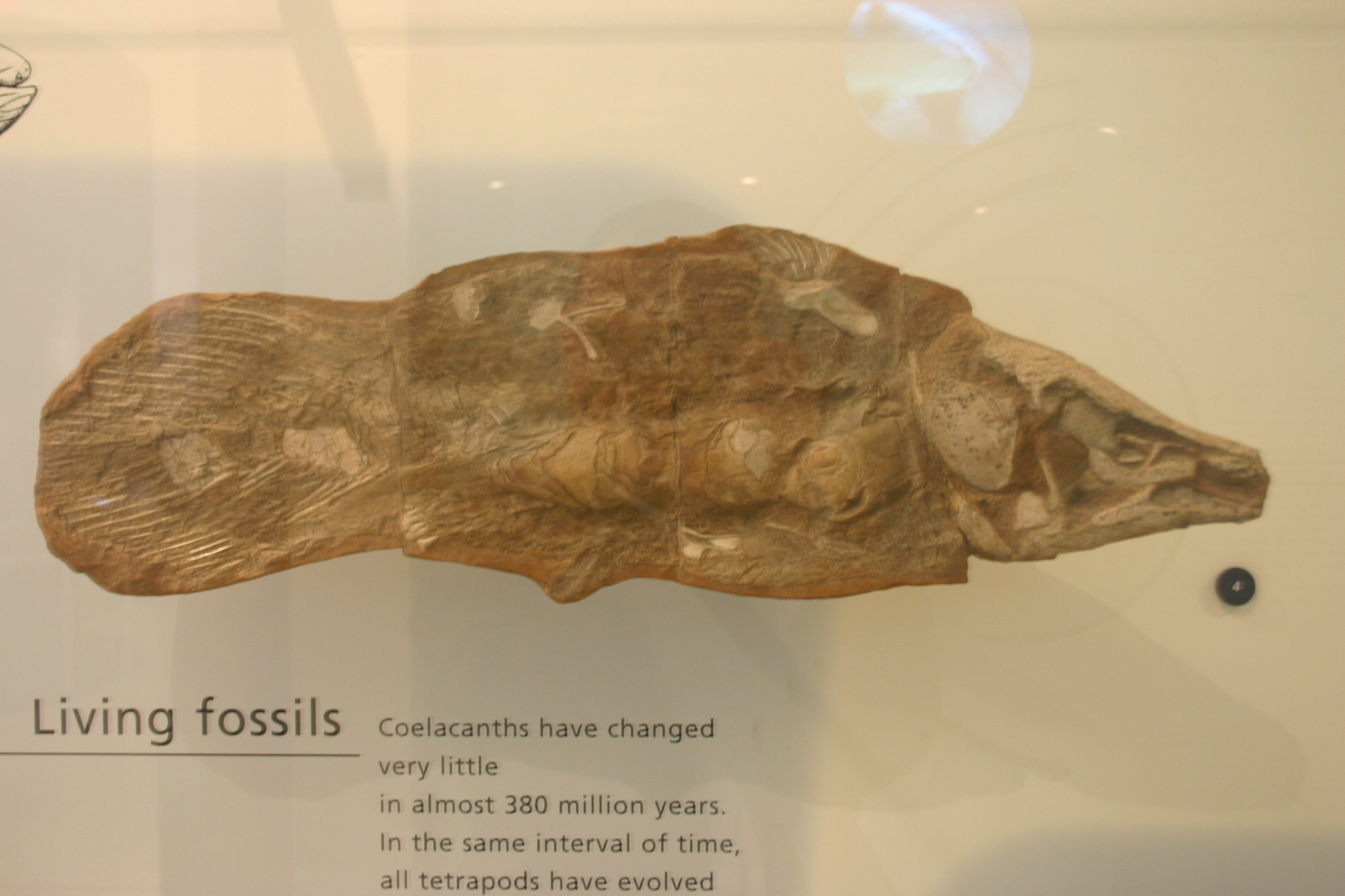 Axelrodichthys araripensis; Named for Dr. H. R. Axelrod